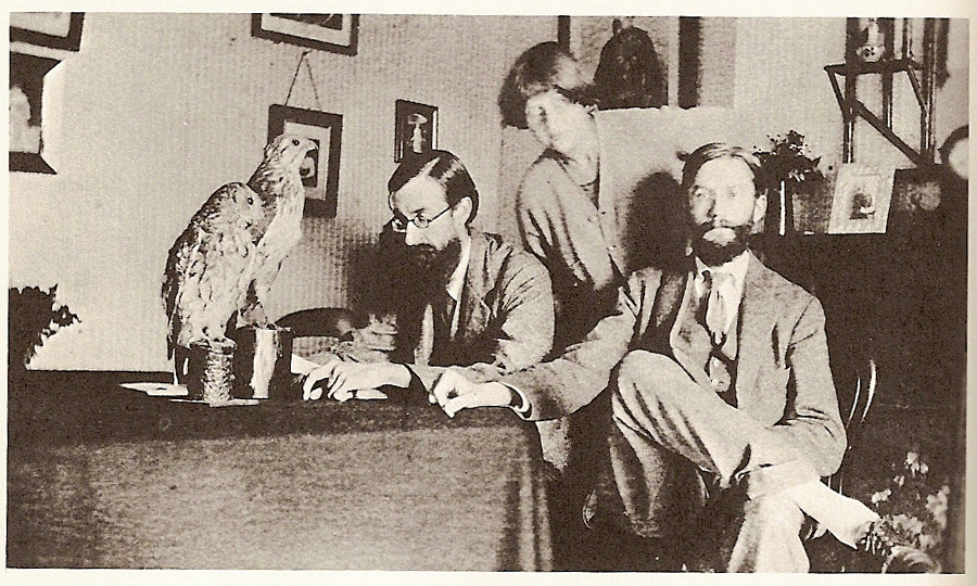 Lytton Strachey, painter Carrington (an elusive subject for the camera), and James Strachey.